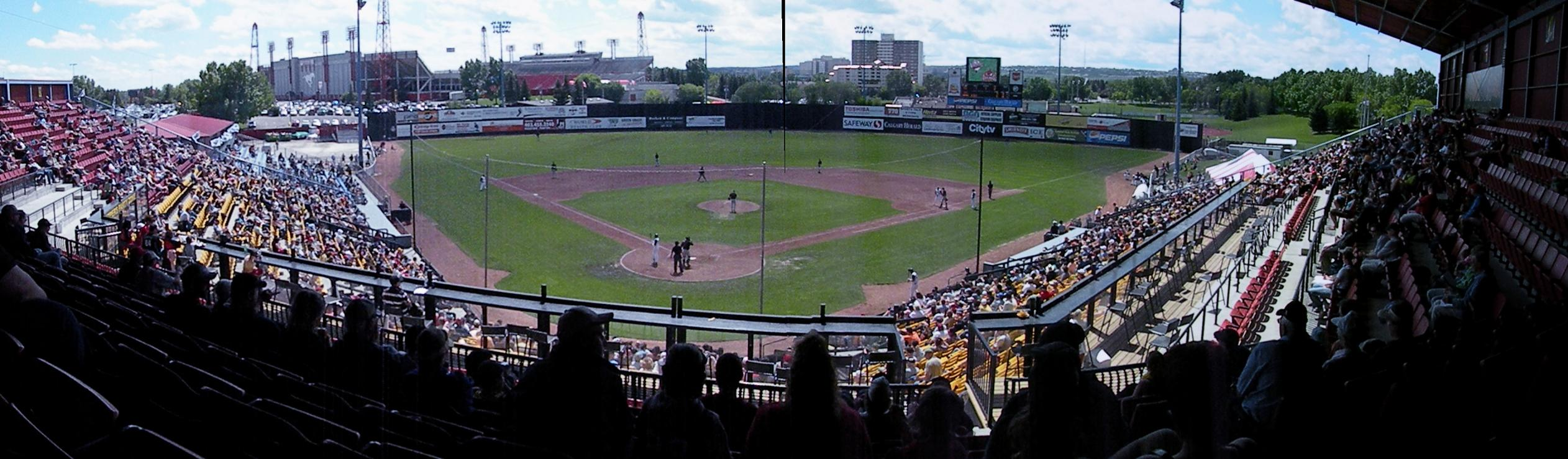 Panoramic view of Foothills Stadium in Calgary.